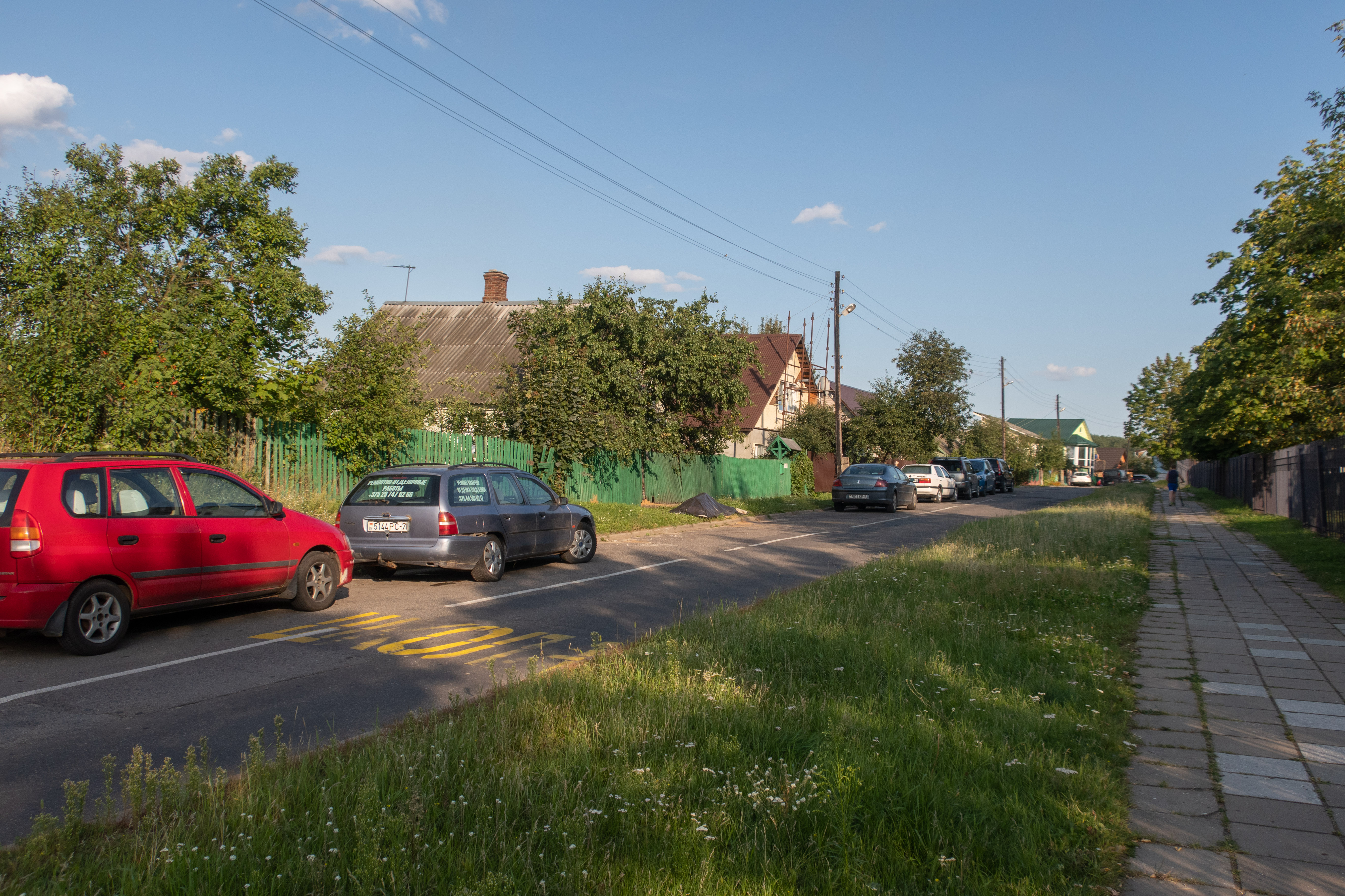 Chalmahorskaja street. Minsk, Belarus